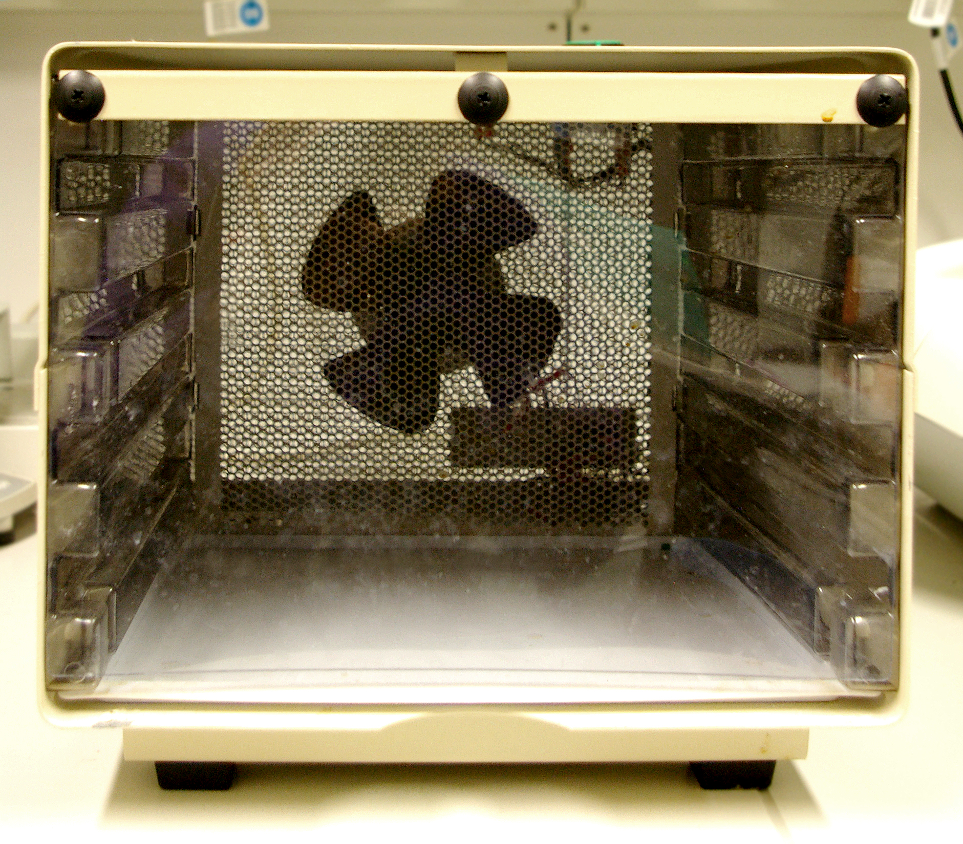 Chamber for drying gels or blots